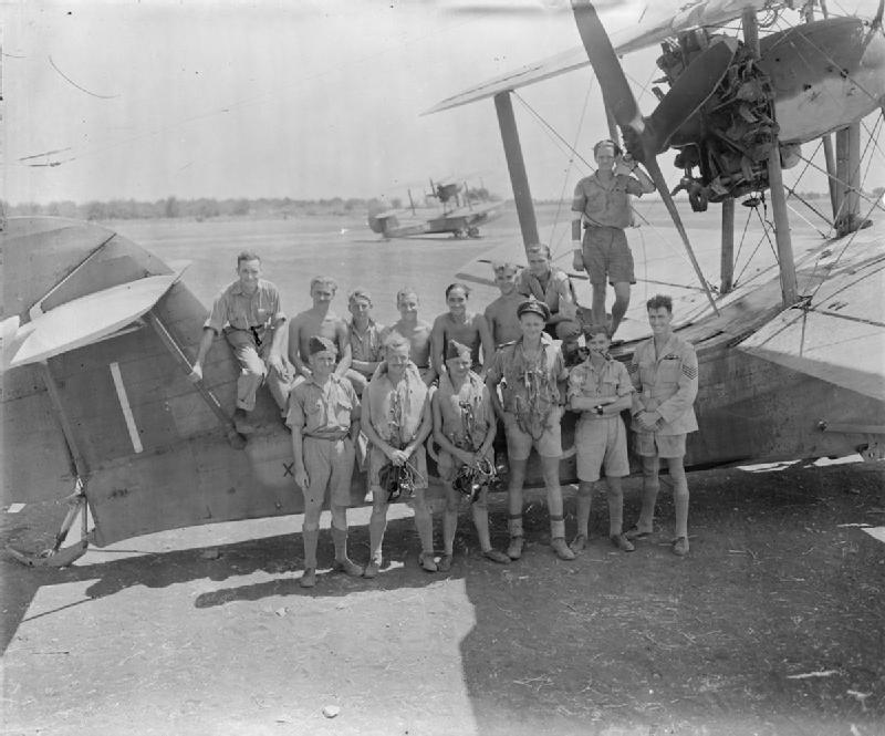 Royal Air Force- Italy, the Balkans and South-east Europe, 1942-1945. Personnel of No. 284 Squadron RAF, an air/sea rescue unit, standing in front of one of their aircraft, Supermarine Walrus, X9506 'C', at Cassibile, Sicily. Aircrew in the front row are (left to right); Sergeant J D Lunn (pilot), Sergeant C S Taylor (wireless operator/air gunner), Warrant Officer N Pickles (w.op/ag), Flying Officer R Eccles (pilot), Flight Sergeant J W Bradley (w.op/ag) and Flight Sergeant E J Holmes (pilot): ground crew in the back row are (left to right); AC1 Radford, Flight Sergeant R C Glew, Corporal J Warrington, Leading Aircraftmen S Waight, J Price, J H Crowther and H Walker, and Corporal J E Newall.